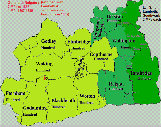 Colour-coded this shows the 1832-1867 dark/light division (East/West) and the 1867 division of the East to form Mid Surrey (mid-to-dark). All elected 2 MPs.